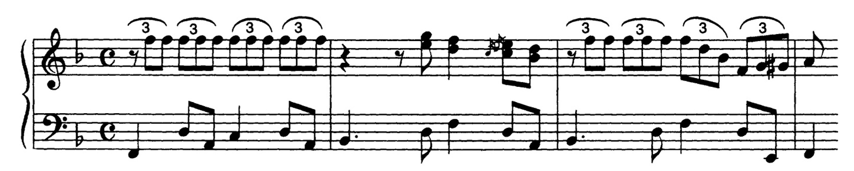 The left hand plays a habanera-like figure